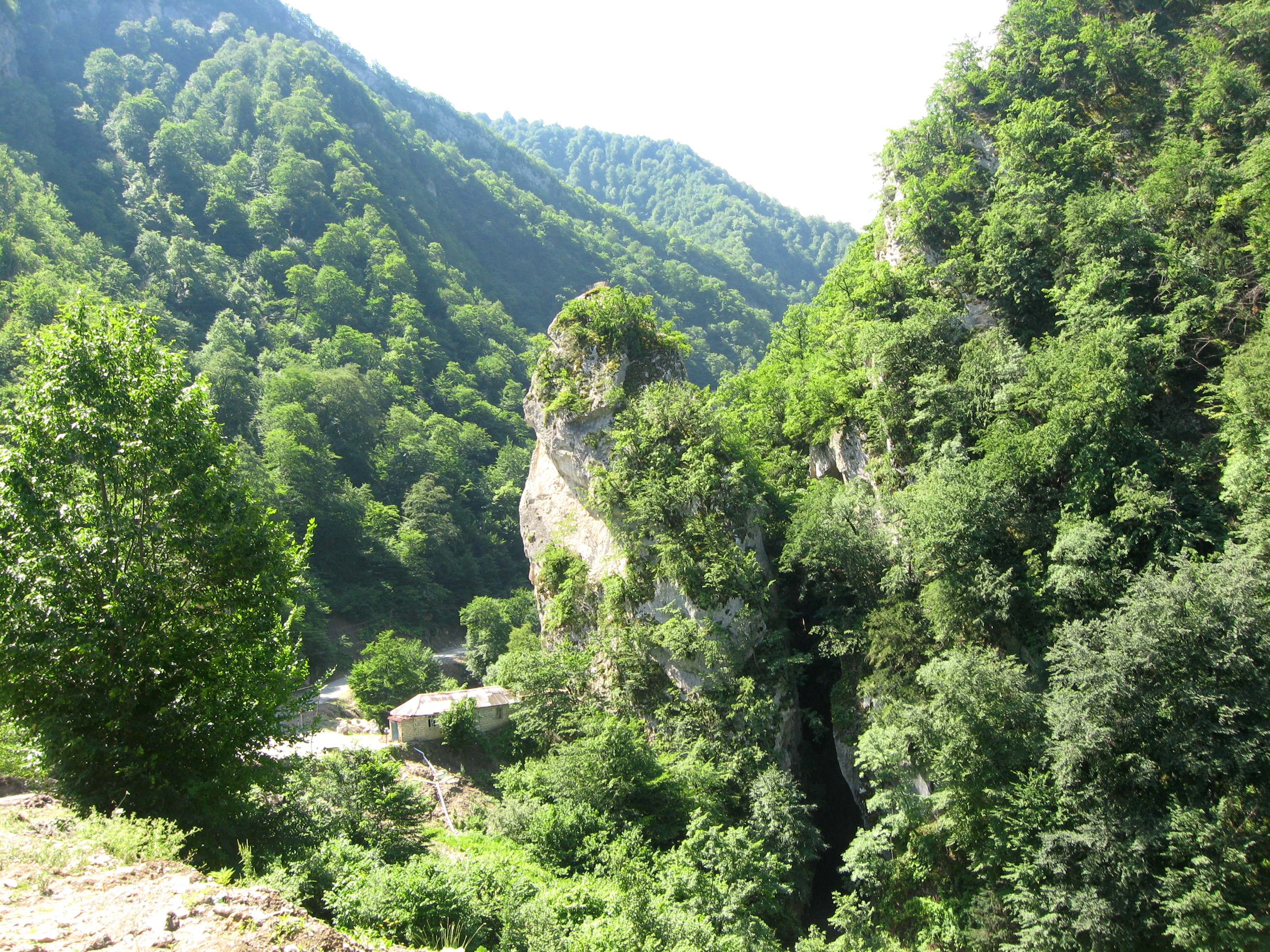 Azerbaijan, Guba, Gechresh